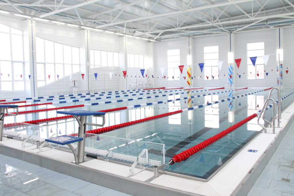 Спортивно-оздоровительный комплекс «Дельфин»